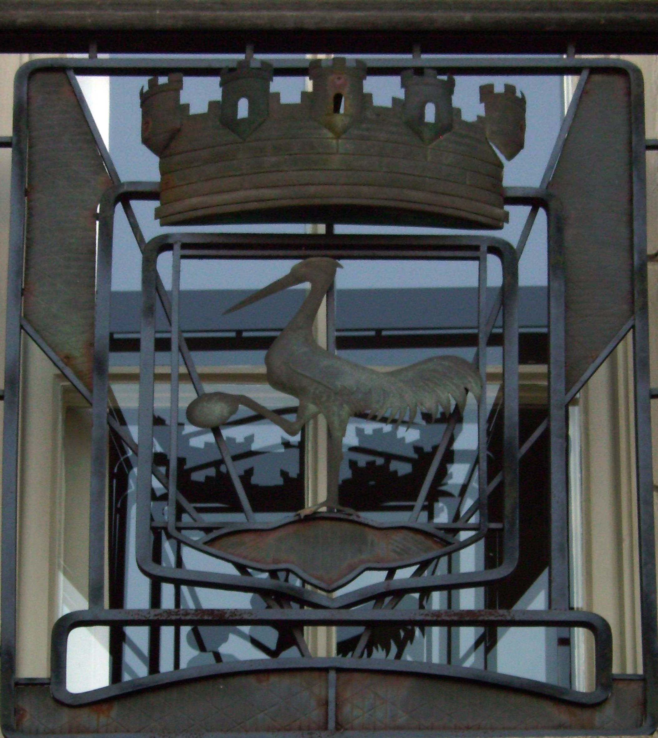 Photo by Harri Blomberg.